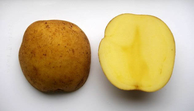 Japanese potato cultivar "Toya"